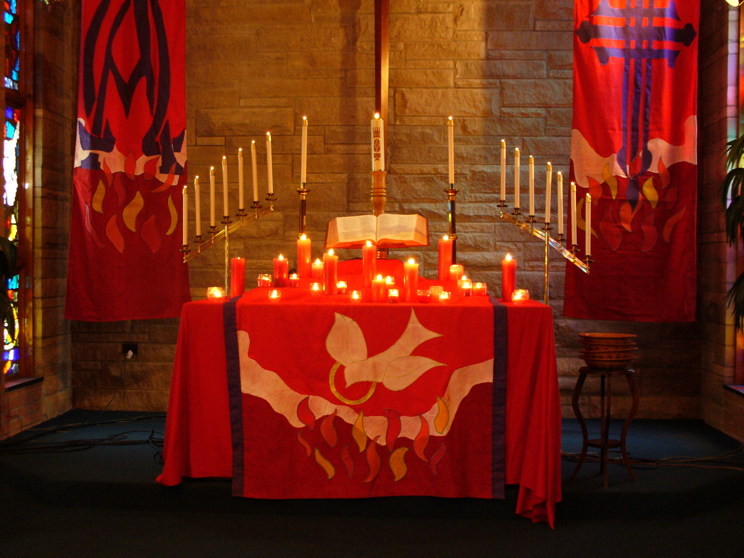 A Protestant Church altar decorated for Pentecost with red burning candles and red banners and altar cloth depicting the fire and sound of blowing wind of the Holy Spirit.